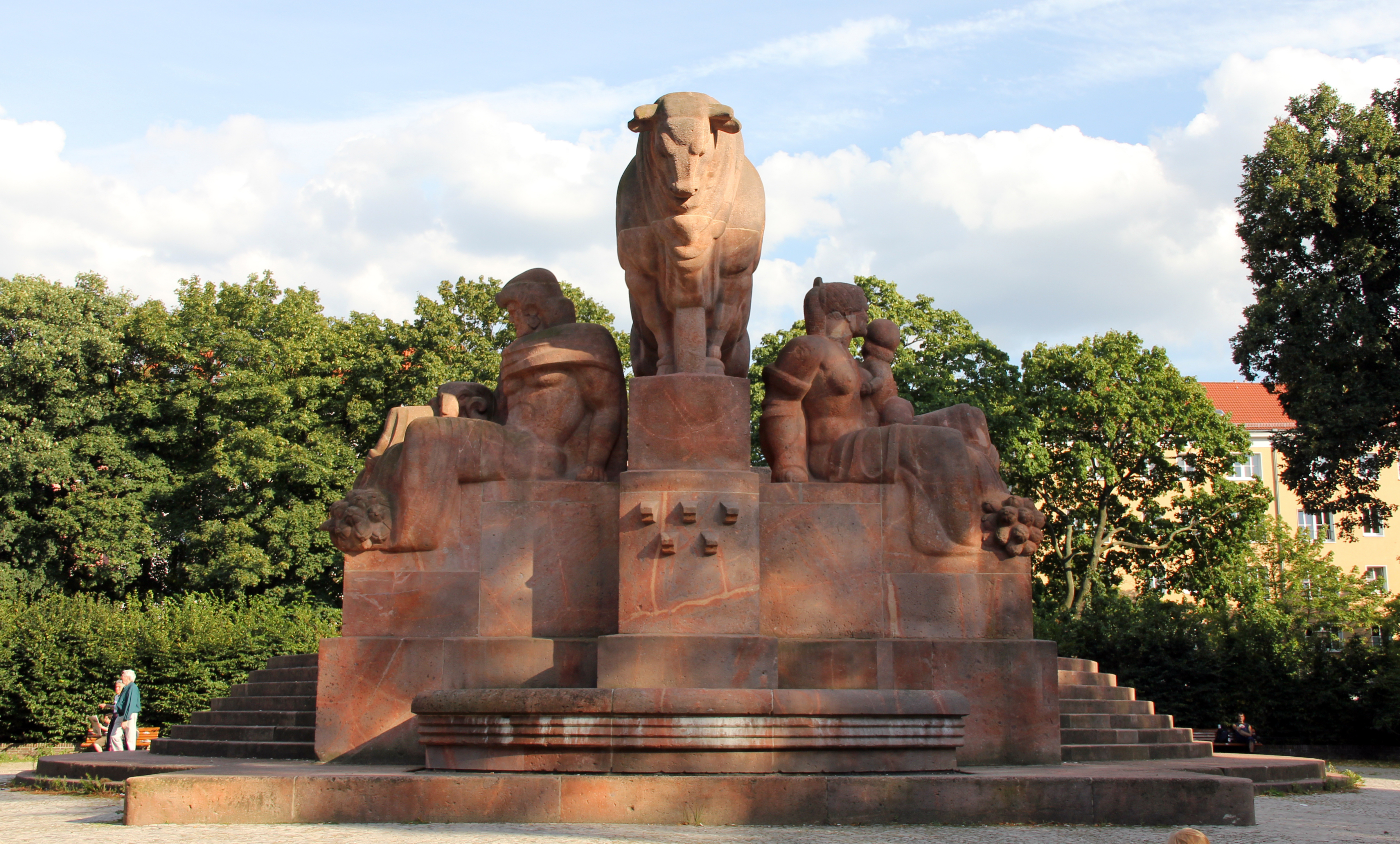 Fountain, Brunnen der Fruchtbarkeit by Hugo Lederer, 1934, Arnswalder Platz, Berlin-Prenzlauer Berg, Germany